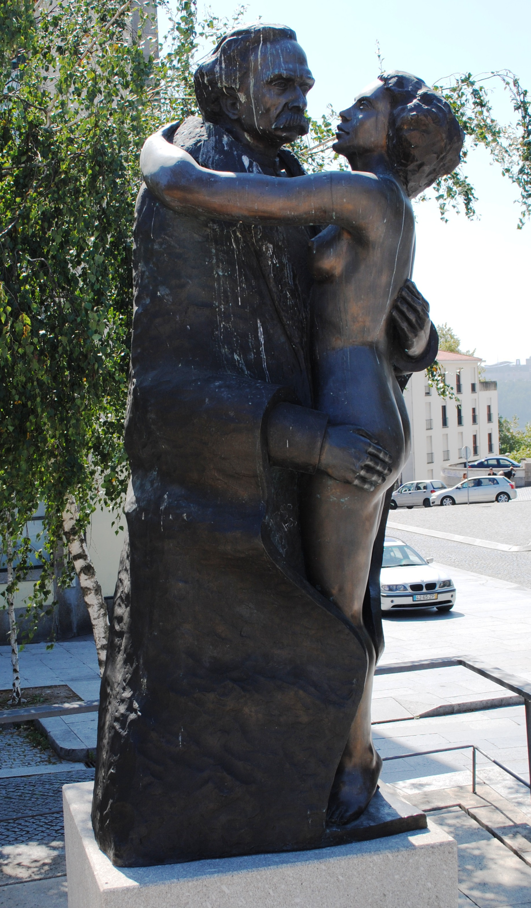 See title and categories.